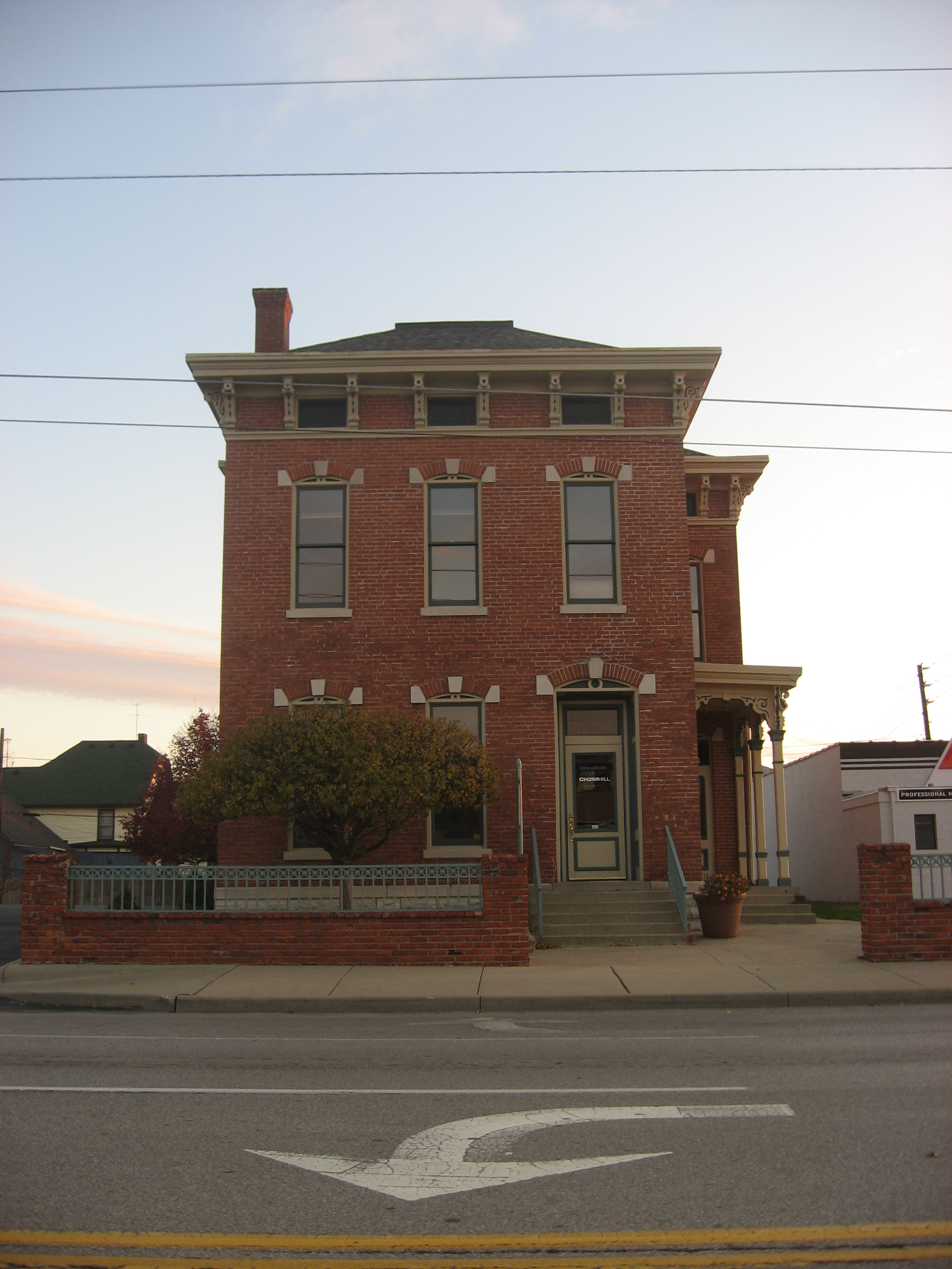 Front of the August Sommer House, located at 29 E. McCarty Street in downtown Indianapolis, Indiana, United States. Built in 1880 and since converted into a dentist's office, it is listed on the National Register of Historic Places.